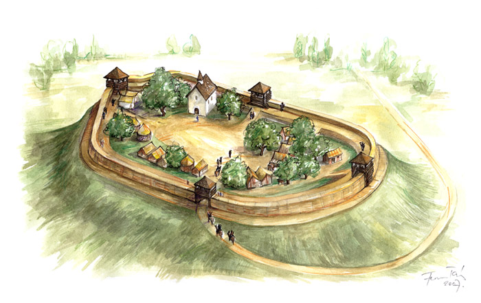 Edelény, Hungary, Borsod - earthfort reconstruction picture